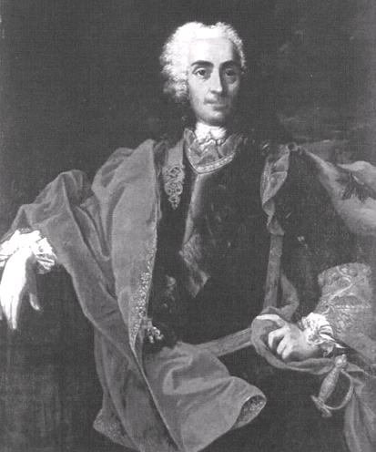 B/W reproduction